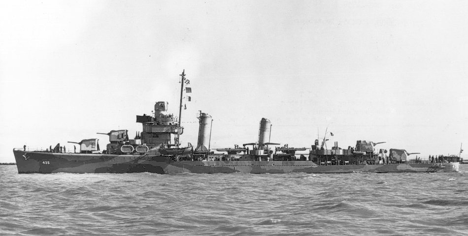 USS Grayson (DD-435) photographed circa 1942. This photograph has been retouched by the wartime censor to eliminate radar antennas atop the ship's foremast and gun director.Edited by Destroyer History Foundation from NARA photo 80-G-41759 scanned at the Naval Historical Center.